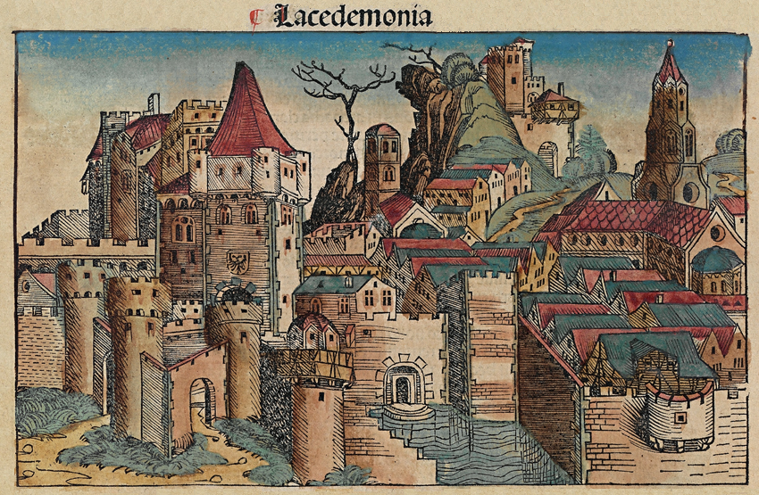 Ideal view of Sparta (Lacedemonia), Greece. 1493 woodcut. This is a part of a scan of an historical document: Title: Schedelsche Weltchronik or Nuremberg Chronicle